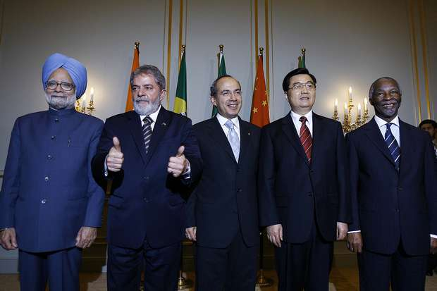 A meeting of G5 leaders in Berlin, Germany. From left to right: Manmohan Singh of India, Luiz Inácio Lula da Silva of Brazil, Felipe Calderón of Mexico, Hu Jintao of China and Thabo Mbeki of South Africa.